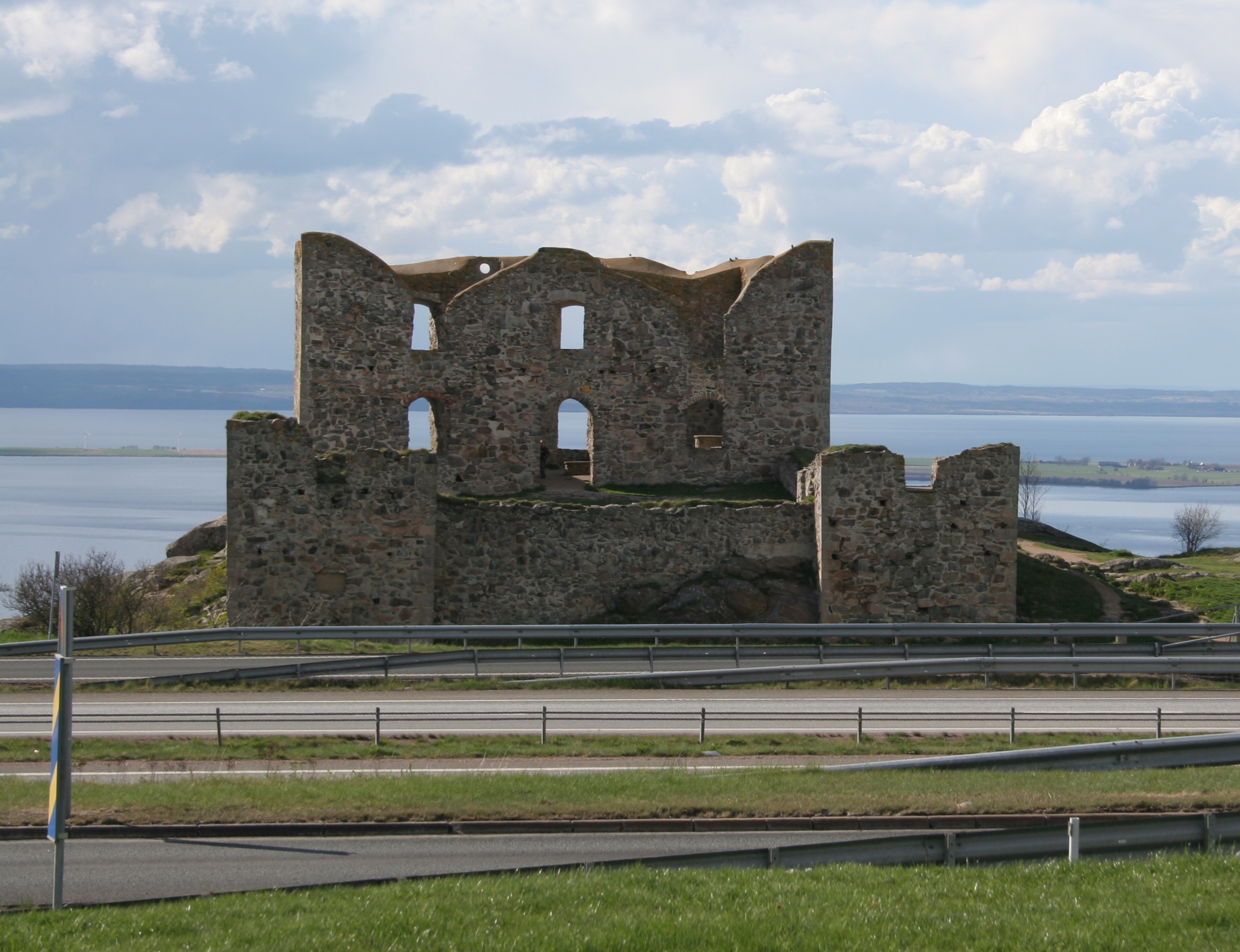 The ruin of Brahehus, Gränna, Sweden. In front of the ruin is the E4.